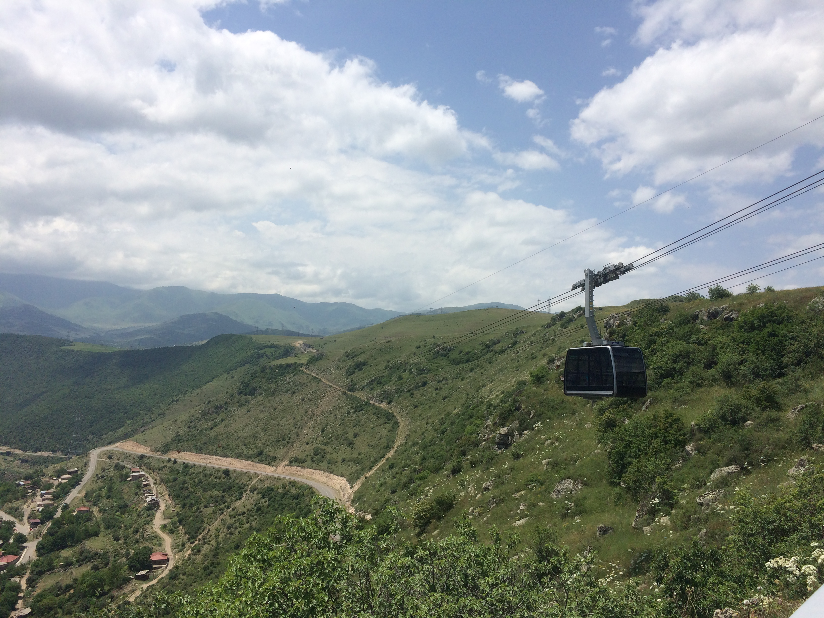 village of Halidzor from the Air cabin of Wings of Tatev